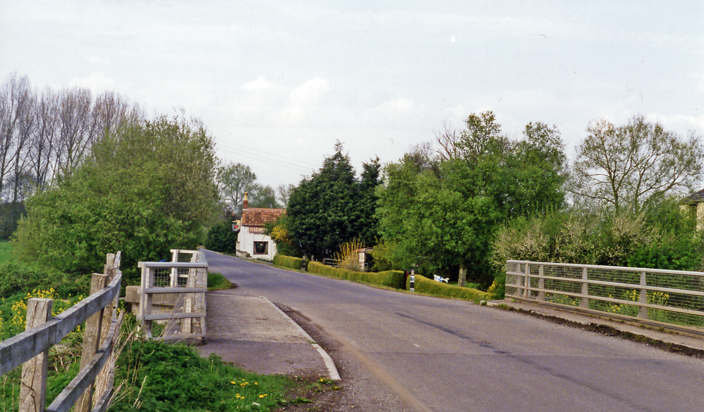 Site of Ashcott station, 1995. View northward on the road from Ashcott village - which was two miles to the south: ex-Somerset & Dorset Joint line from Evercreech Junction (to right) - Highbridge and Burnham-on-Sea (to left). The station was to the right below the bridge and survived until the end of the whole S&D system on 7/3/66. (See also ST4439 : Site of Ashcott Station, Somerset by David Hillas).